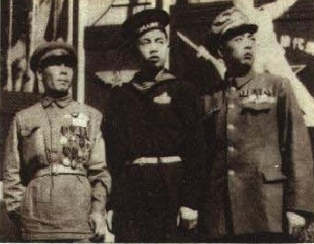 1950年10月，中华人民共和国全国战斗英雄会议，1950年8月的《人民画报》。